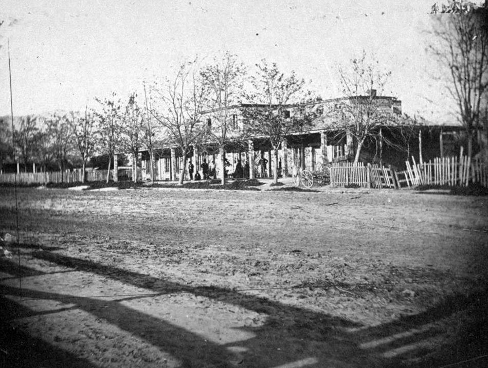 Exterior view of Amasa Lyman's home in San Bernardino, ca.1863. O. M. Wozencraft resided in the house when the image was captured.